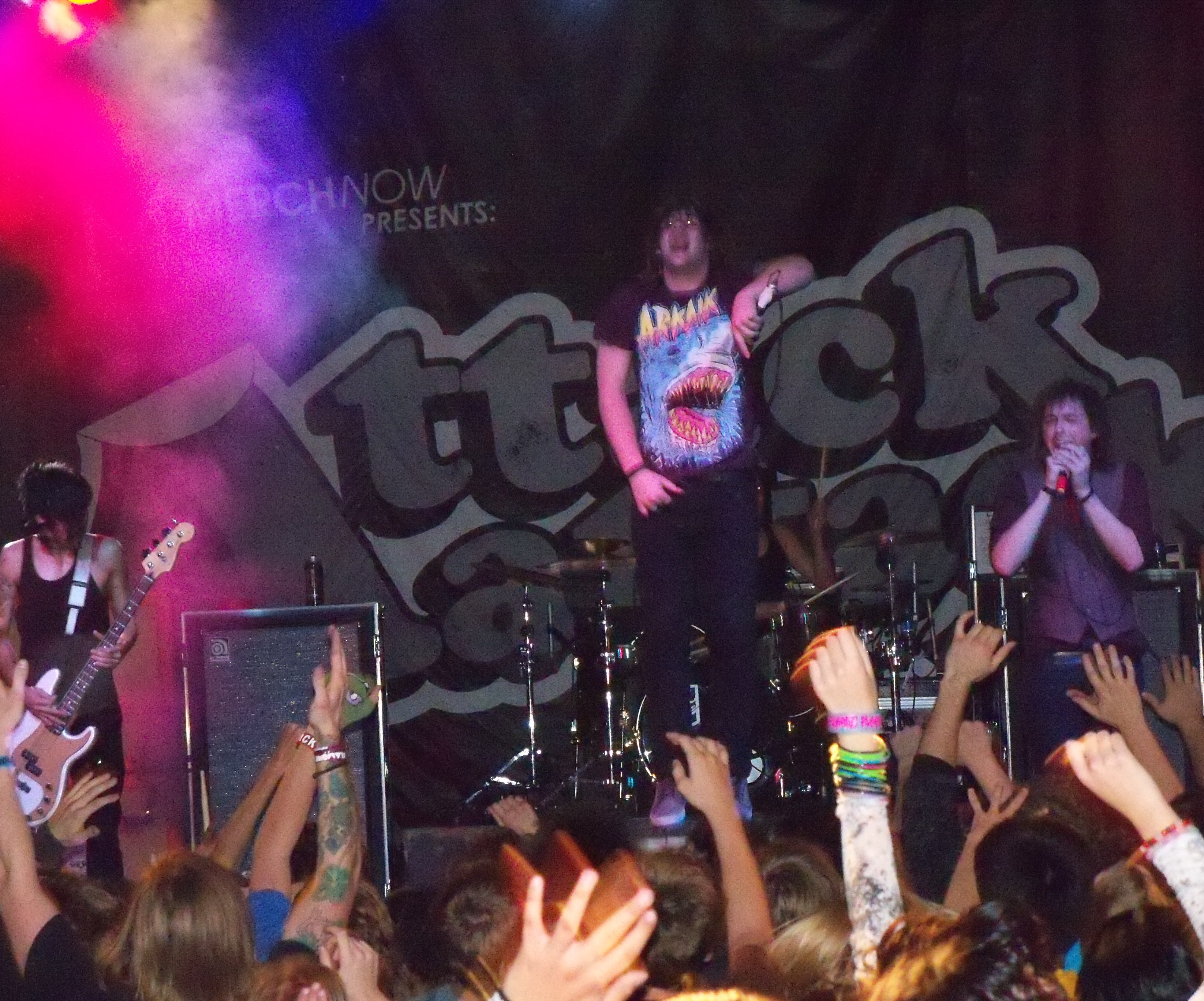 Metalcore band, Attack Attack! performing on their headlining, This Is a Family Tour